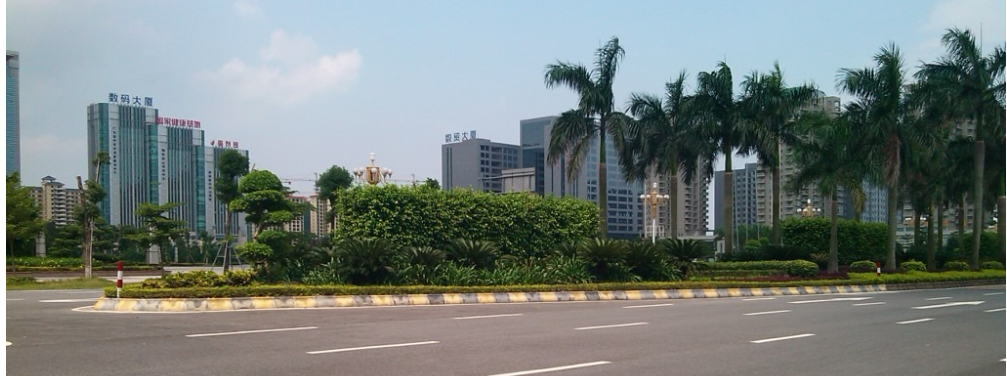 Zhongshan Hi-Tech Develop District.PNG